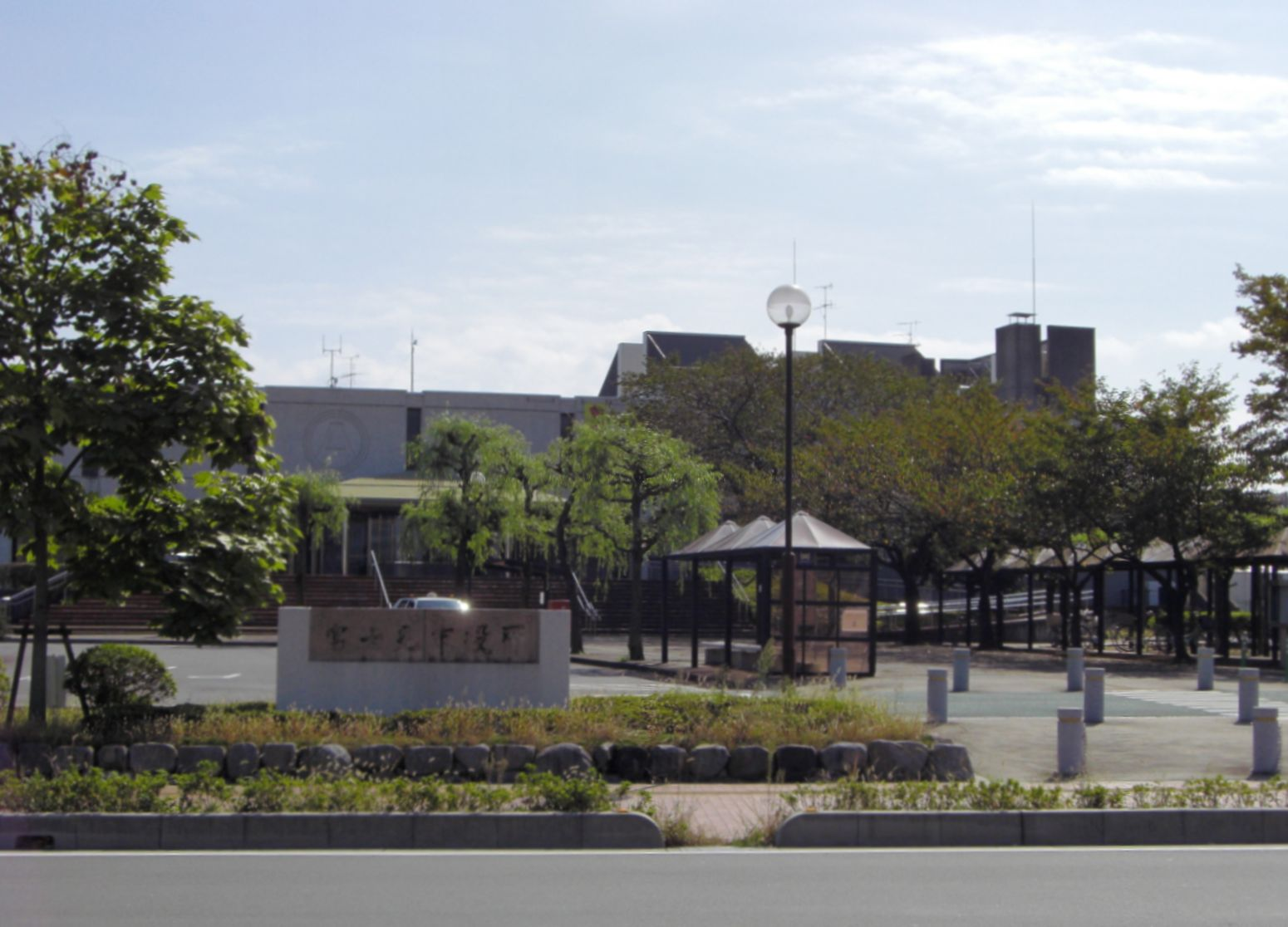 Fujimi city office, Saitama, Japan.